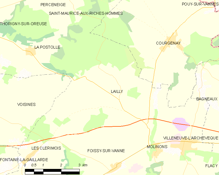 Map of French municipality Lailly